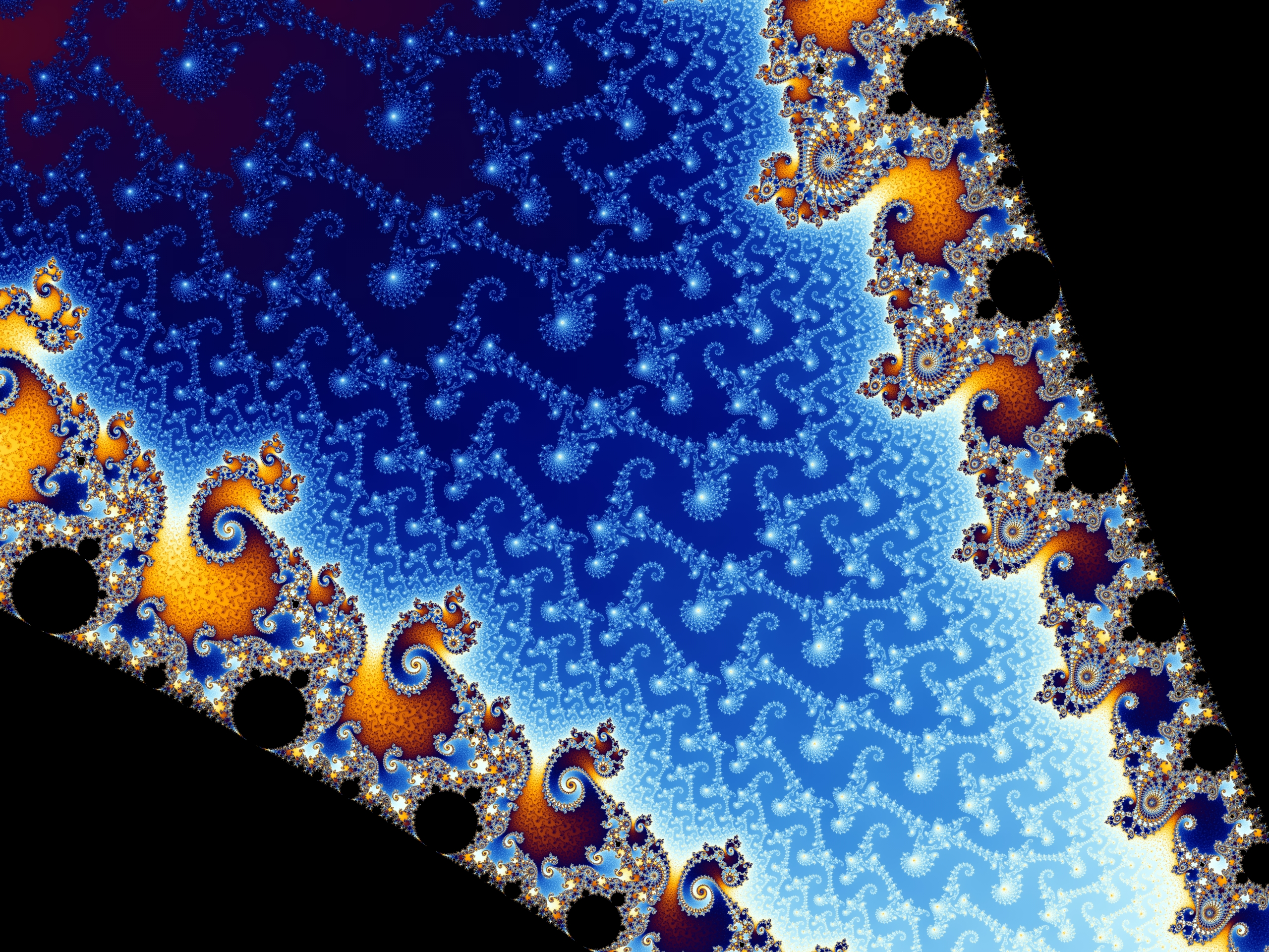 Partial view of the Mandelbrot set. Step 10 of a zoom sequence: Double-spirals and "seahorses". Unlike the image of zoom step 2 they have appendices consisting of structures like "seahorse tails". This demonstrates the typical linking of n+1 different structures in the environment of satellites of the order n, here for the simplest case n=1. Coordinates of the center: Re(c) = -.743,643,862,69, Im(c) = .131,825,902,71 Horizontal diameter of the image: .000,000,135,26 Magnification relative to the initial image: 22,748,000 Created by Wolfgang Beyer with the program Ultra Fractal 3. Uploaded by the creator.